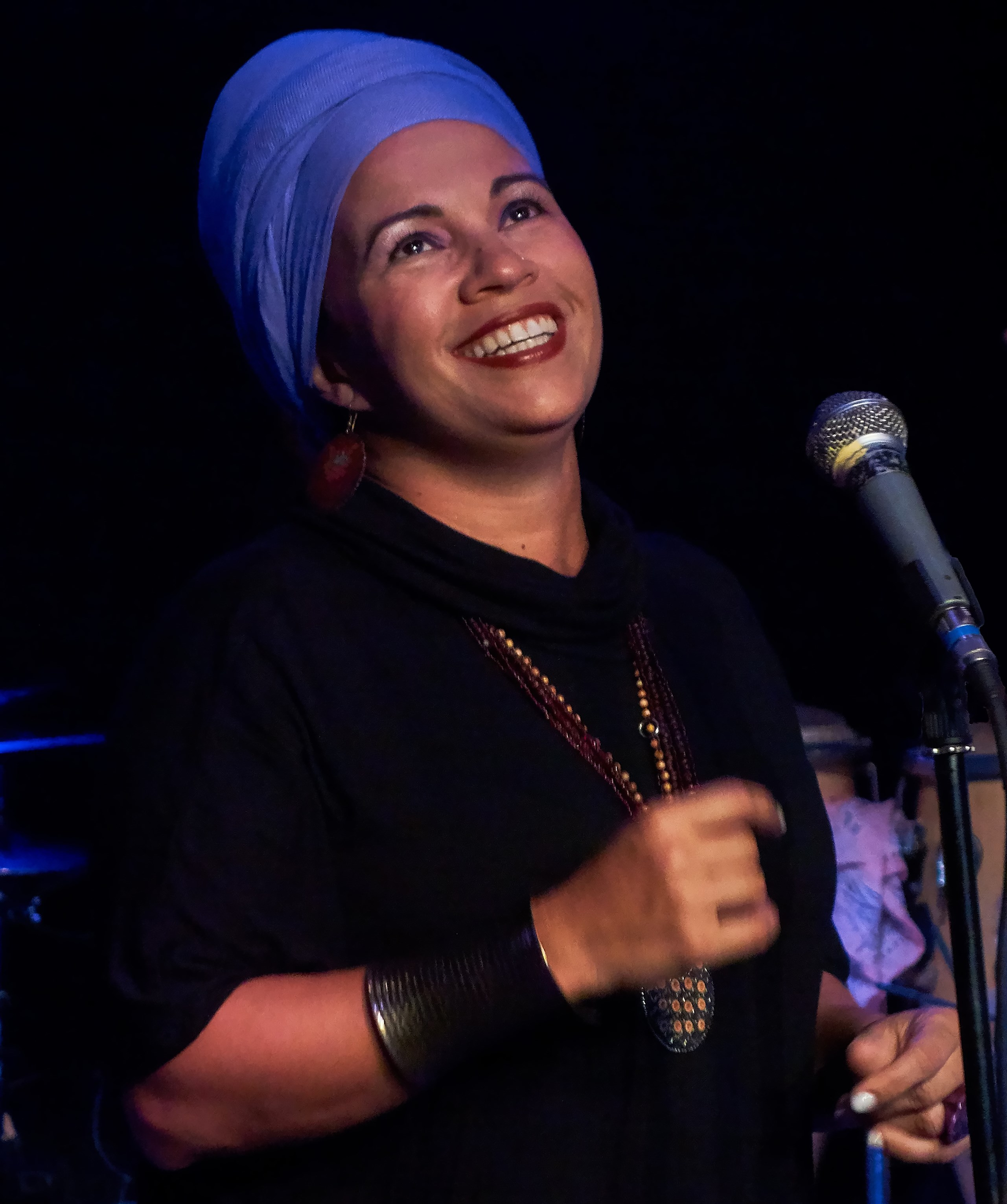 Telmary at a Havana concert in April 2016